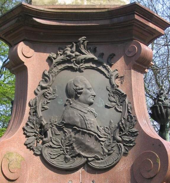 Memorial with bronzegenius for the German writer, philosopher, publicist, and art critic Gotthold Ephraim Lessing in Berlins park Großer Tiergarten. Unveiling 14 October 1890. Built by the sculptor and painter Otto Lessing, ur-grandnephew of the writer Lessing.